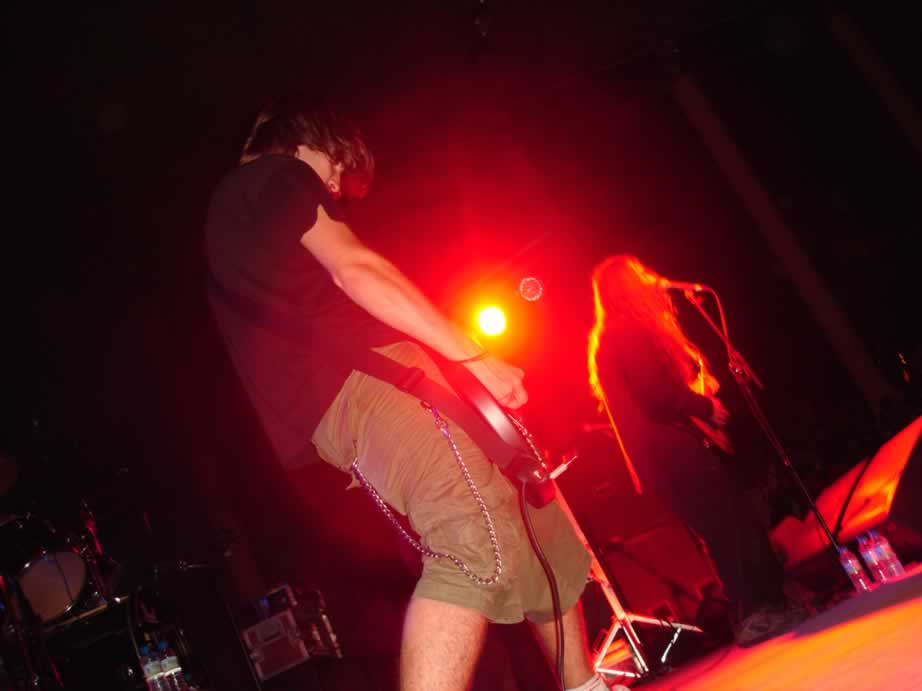 KUDAI, Spanish (Basque Country) thrash metal and industrial metal group in concert (2005).